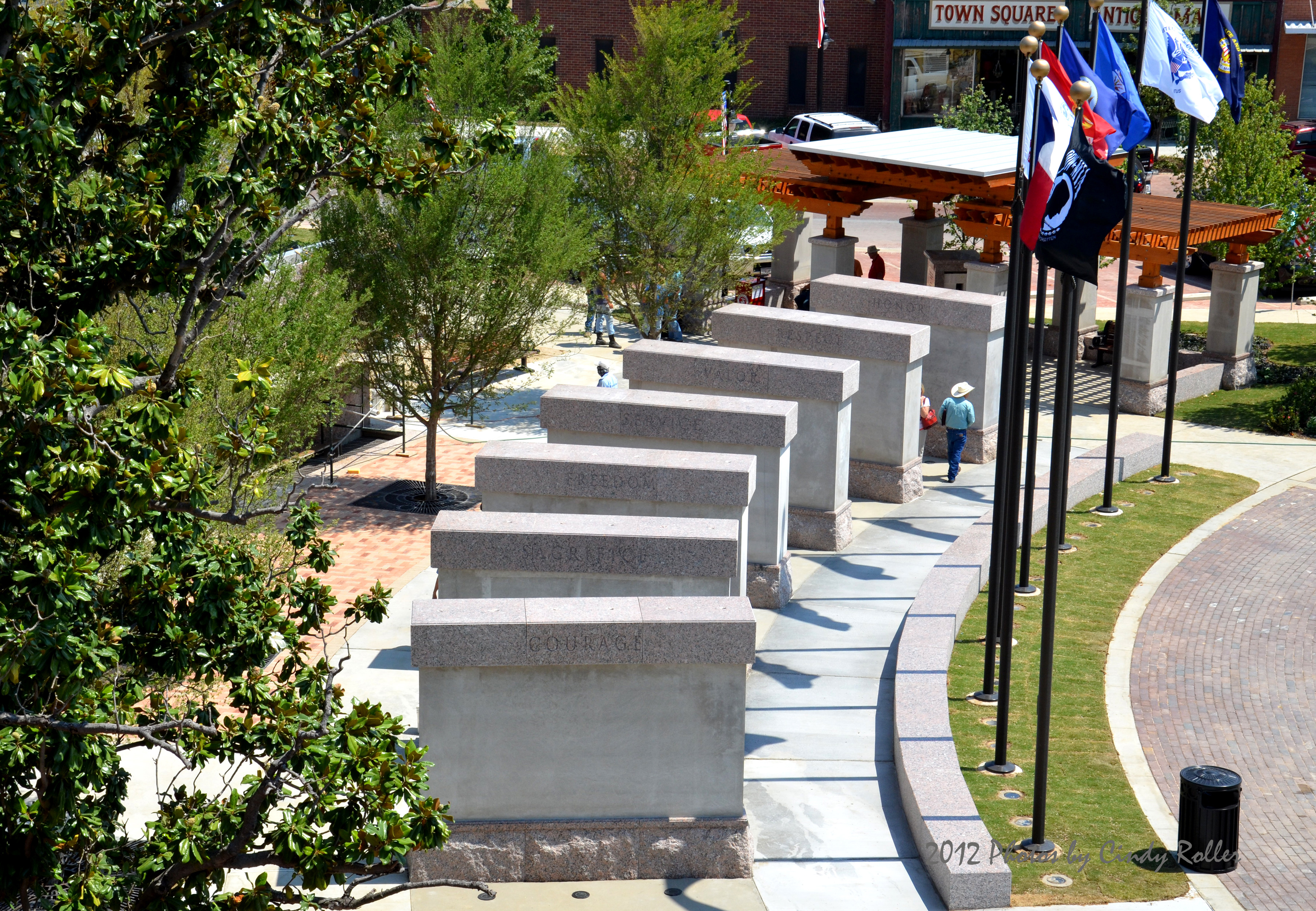 SS Courthouse Veterans - Veteran's Memorial Downtown.